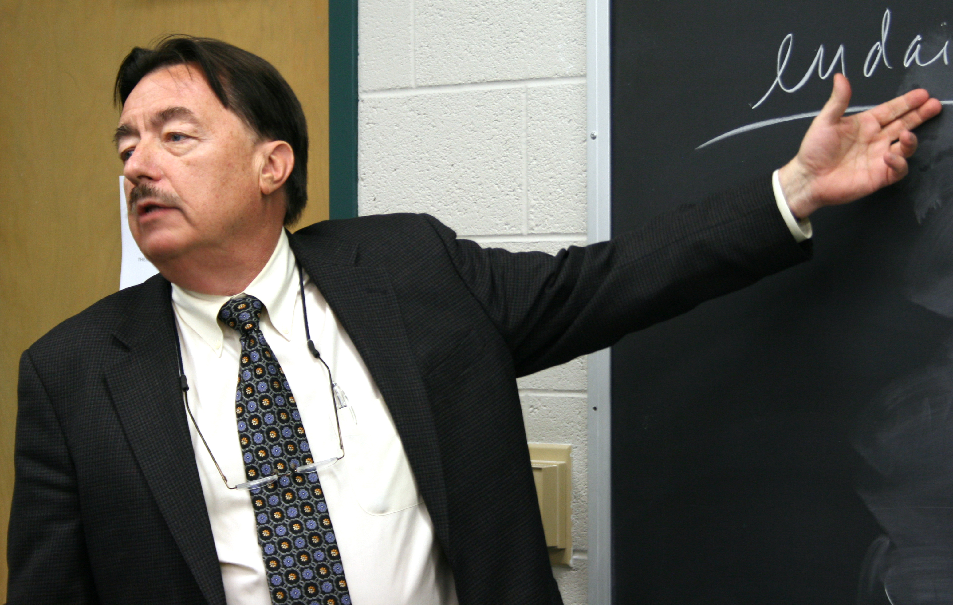 Douglas B. Rasmussen giving a guest lecture at Rockford College on April 23, 2010.